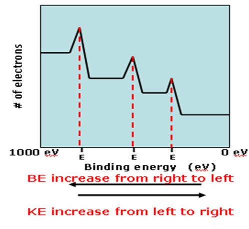 Schematic of XPS spectrum